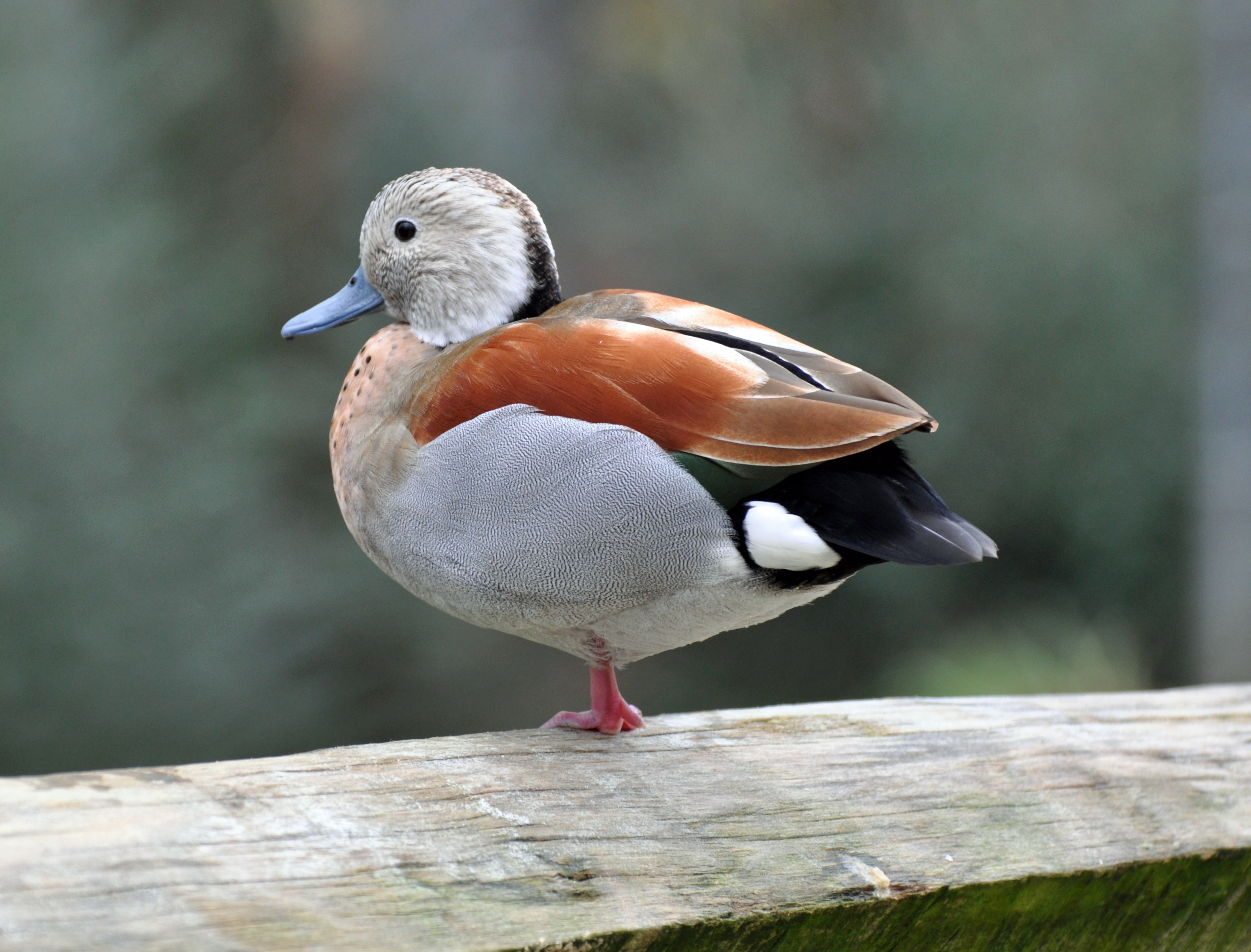 Ringed Teal duck standing on a fence.